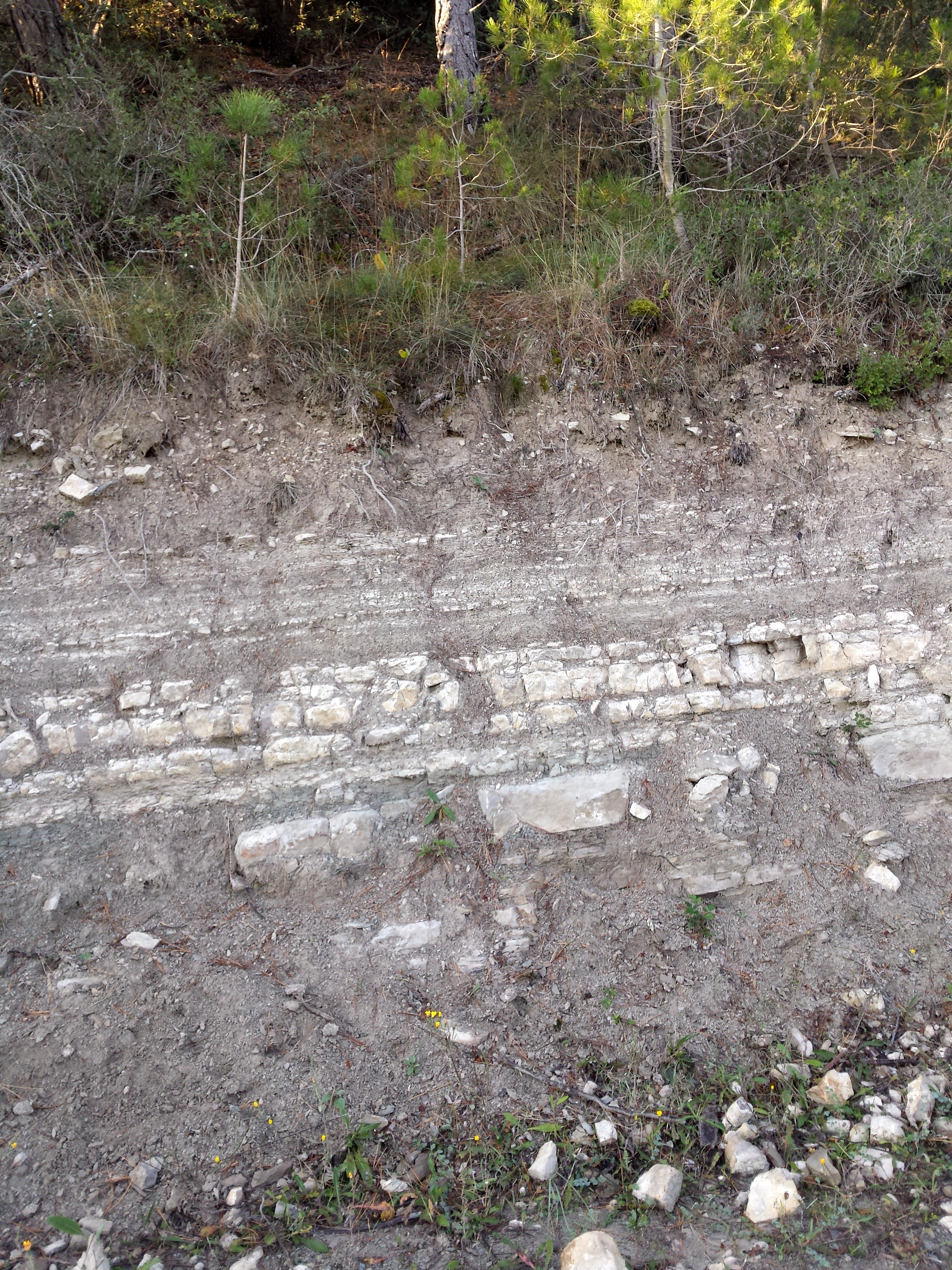 Strata (chalk layers) in a 2 meters cut. Castelltallat, Catalonia